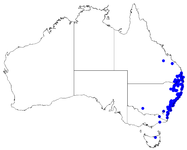 Boronia polygalifolia downloaded from Australasian Virtual Herbarium 10 April 2019 using This download included all the environmental overlay fields and ALA's data checking fields including "cultivated / escapee", "outside expert range for species", "latitude is negated", "coordinates are transposed", "taxon misidentified", "habitat incorrect for species", and "suspected outlier" (711 fields). Deleting occurrences for which any of the above were true, 46 specimens with coordinates were deleted.